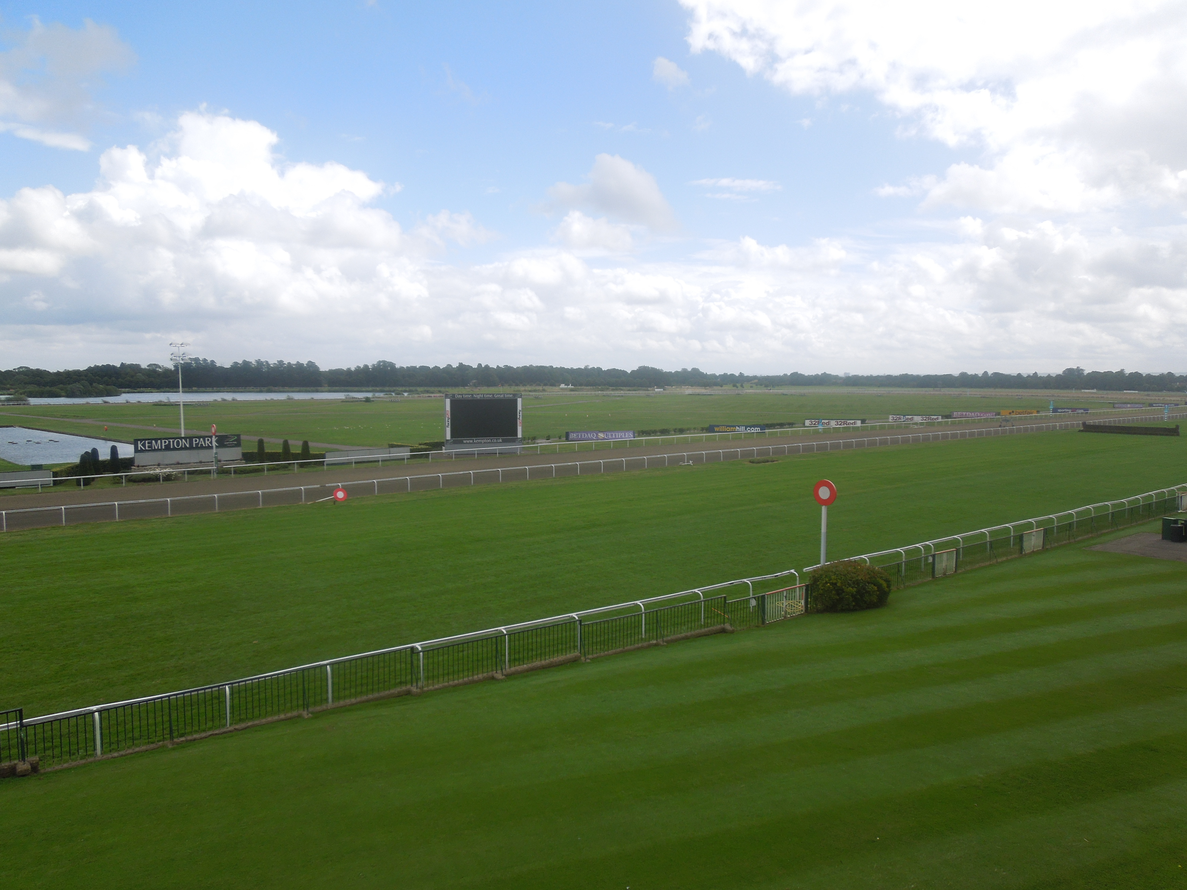 Photo of the Rock Gem 'n' Bead Show (August 4 and 5, 2012, Kempton Park Racecourse, London, United Kingdom).